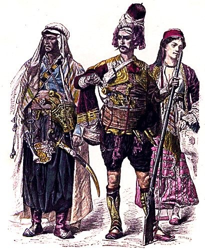 Late nineteenth century Lebanese dress. Maronite from Lebanon, Inhabitant of Jeïbel, Christian Woman from Lebanon. From "Zur Geschichte der Kostüme", 1880, a German book with expired copyright.